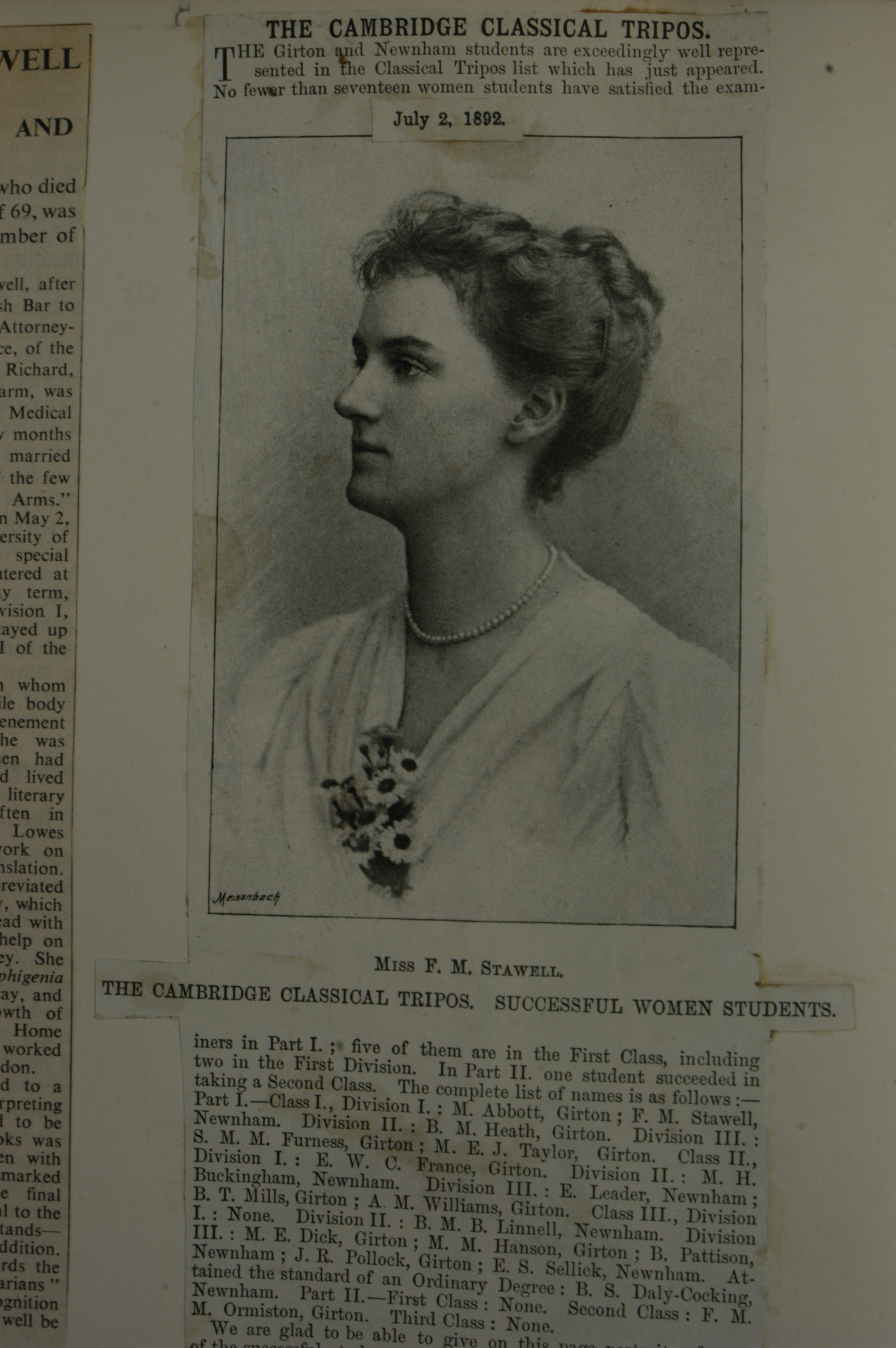 Photo (by me, R. de Salis, Rodolph (talk) 07:37, 28 July 2015 (UTC)) of a newspaper photograph and Cambridge Classical Tripos results of Florence Stawell in 1892.